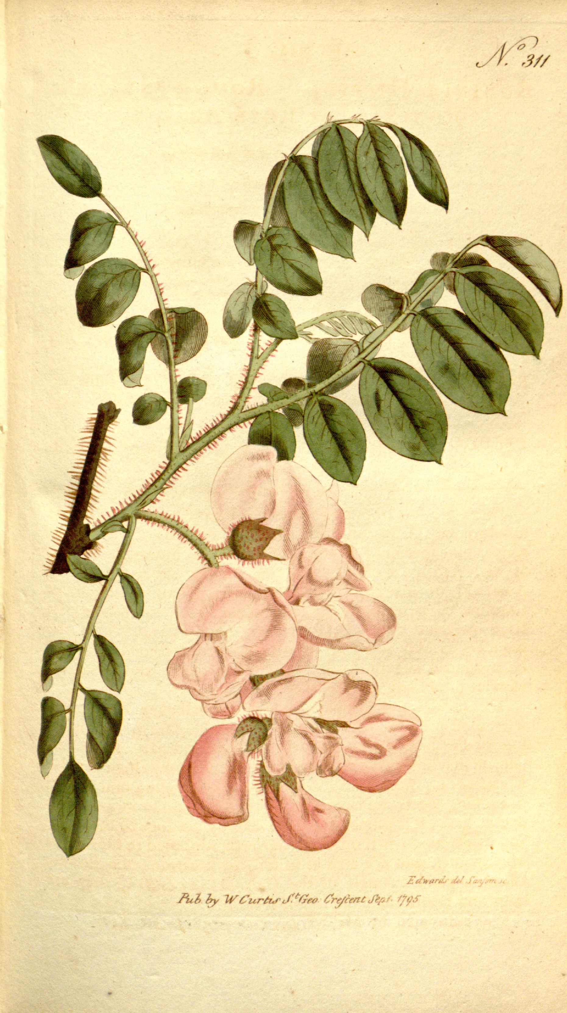 Robinia hispida (var. hispida). This is a plate from The Botanical Magazine, Volume 9.